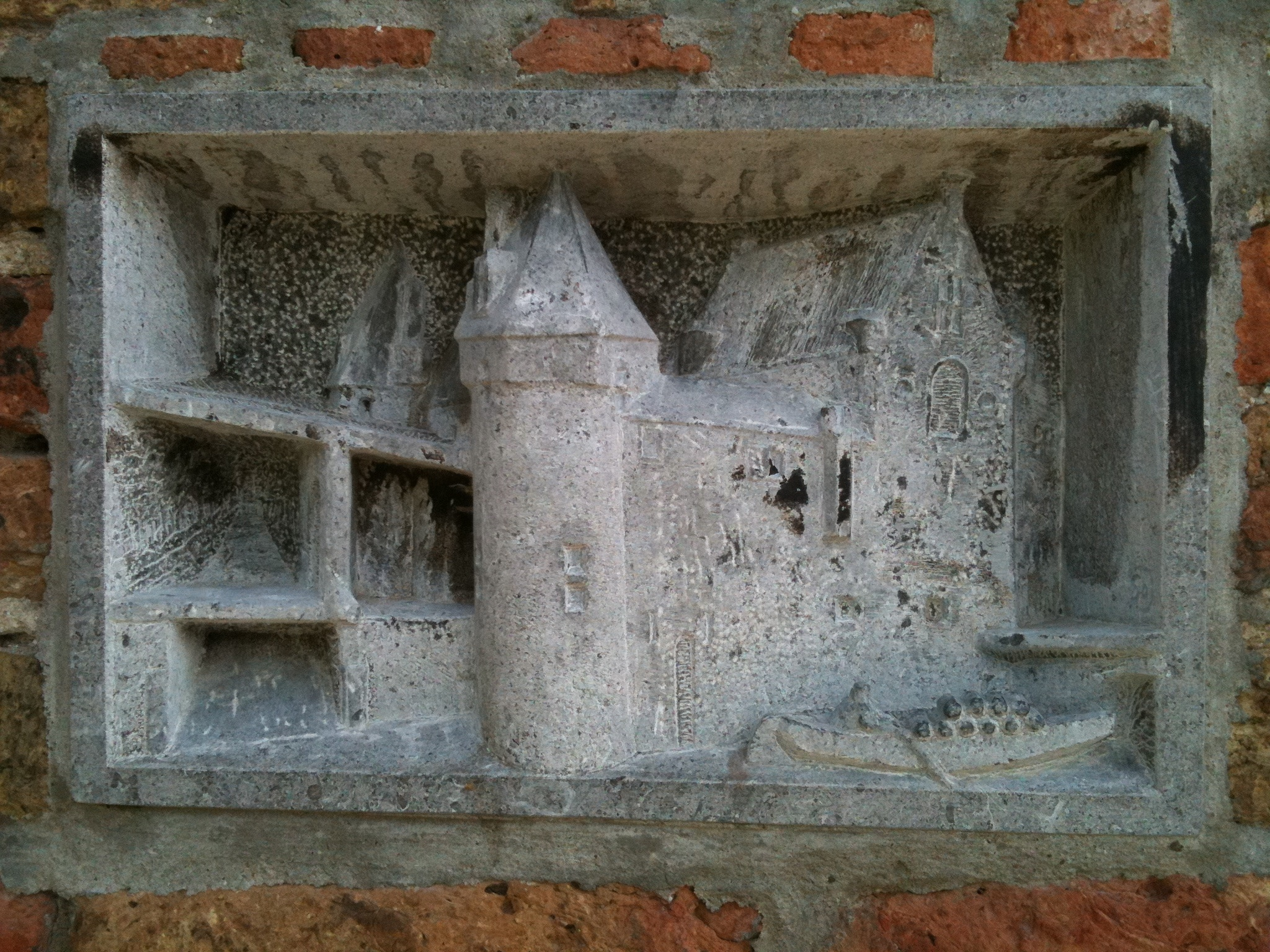 Pand met lijstgevel, Oudegracht 2, Utrecht. Gevelsteen (1e Achterstraat hoek Oudegracht 2) door Stef Stokhof de Jong in zijmuur pand (Nijntje Pleintje) met gehouwen afbeelding van de voormalige Weerdpoort